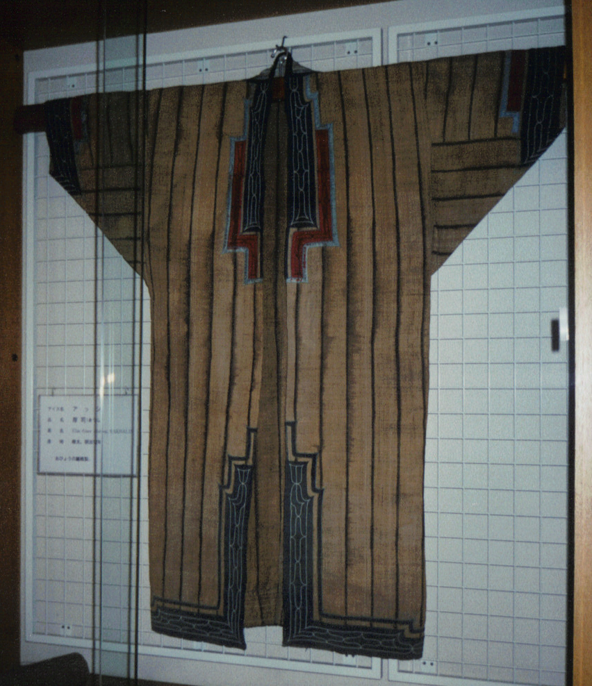 Traditional Ainu coat made of nettle. Ainu Museum, City of Shiraoi, Hokkaido, Japan